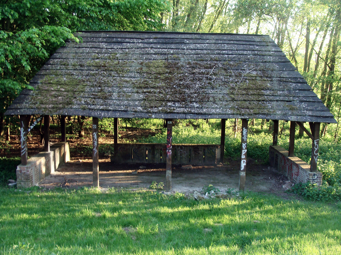 Laerbeek Wood